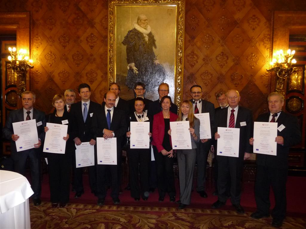 Picture of the foundation meeting of the Baltic Sea Academy February 2010